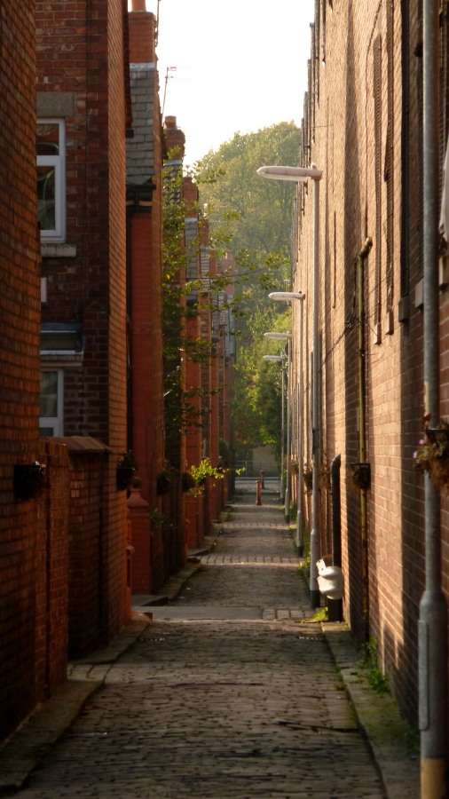 Back alley between terraces and old bus depot in Moss Side, Manchester. The Stagecoach bus depot is due to be demolished in 2011. It formerly served as a tram station.